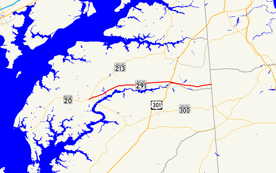 Map of Maryland Route 291